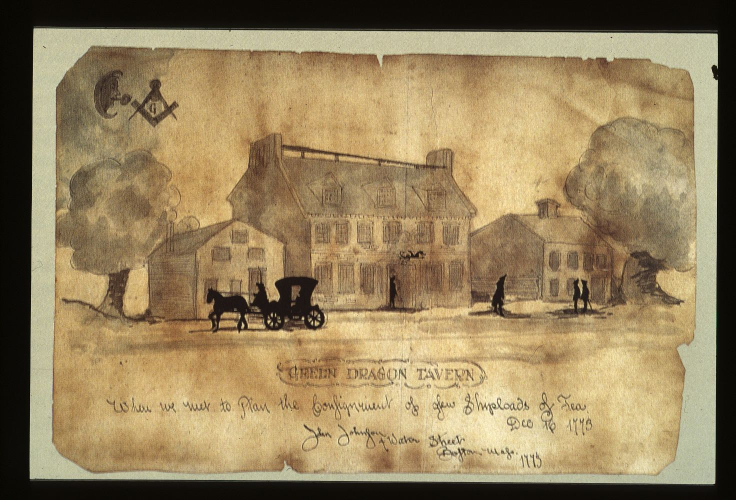 "Green Dragon Tavern: Where we met to Plan the Consignment of a few Shiploads of Tea, Dec 16 1773," for the Boston Tea Party. John Johnston (c. 1753-1818) watercolor sketch, n.d. Original at American Antiquarian Society, 185 Salisbury St, Worcester, MA 01609-1634.